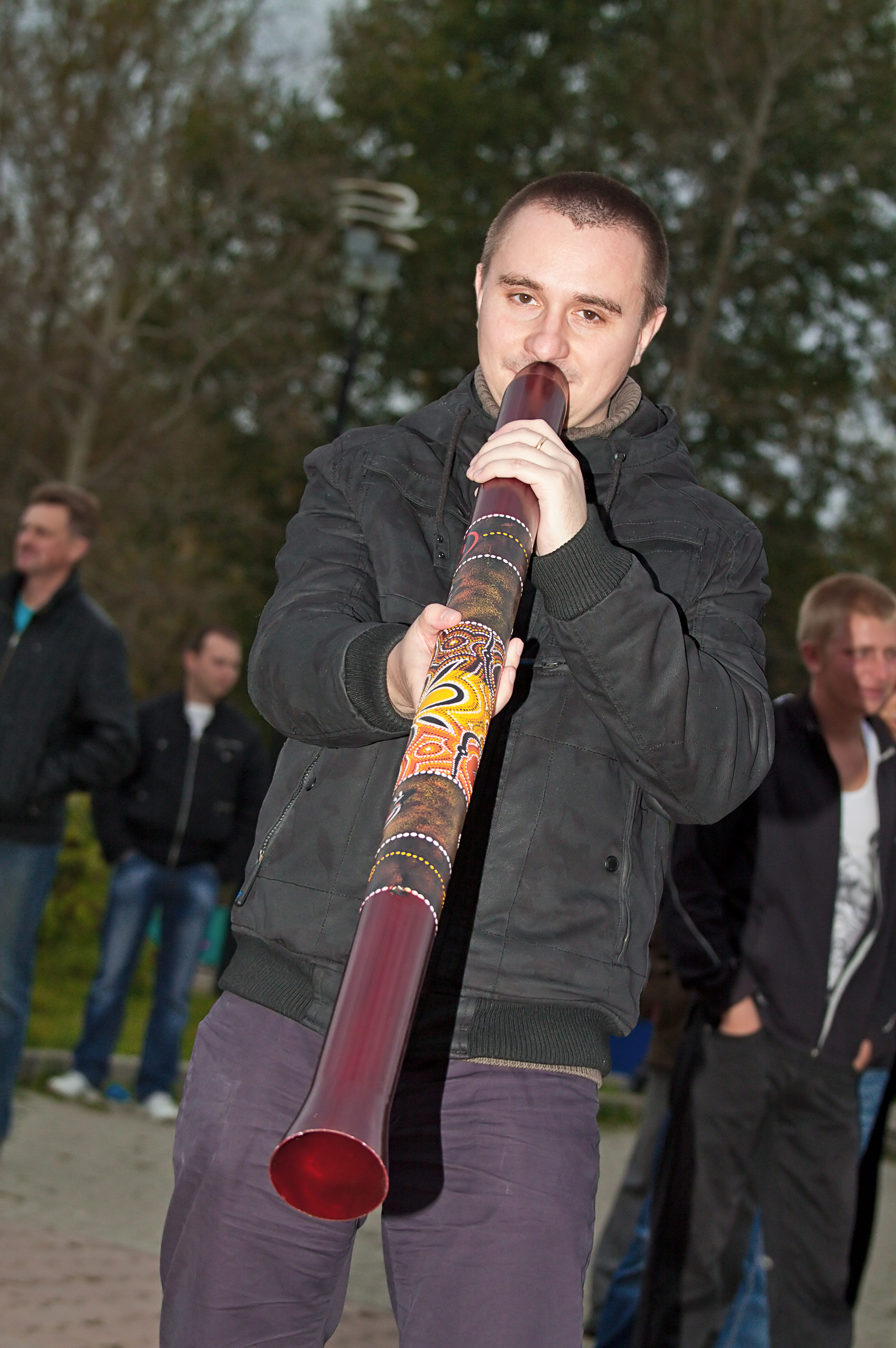 Ilya Belov plays didgeridoo at the concert in the «Crossing» festival. Event took place in Victory Park in Pereslavl. Ilya Belov — a soloist of «Angelique» band from Yaroslavl.